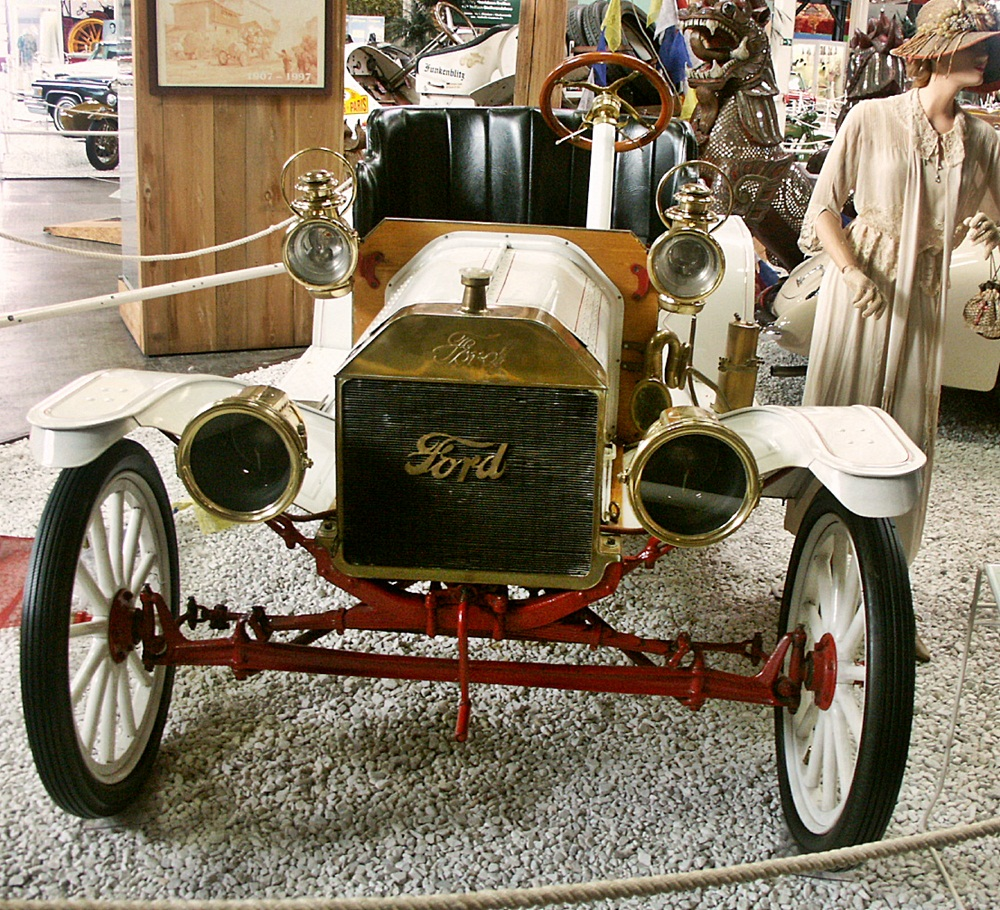 1912 Ford Model T speedster